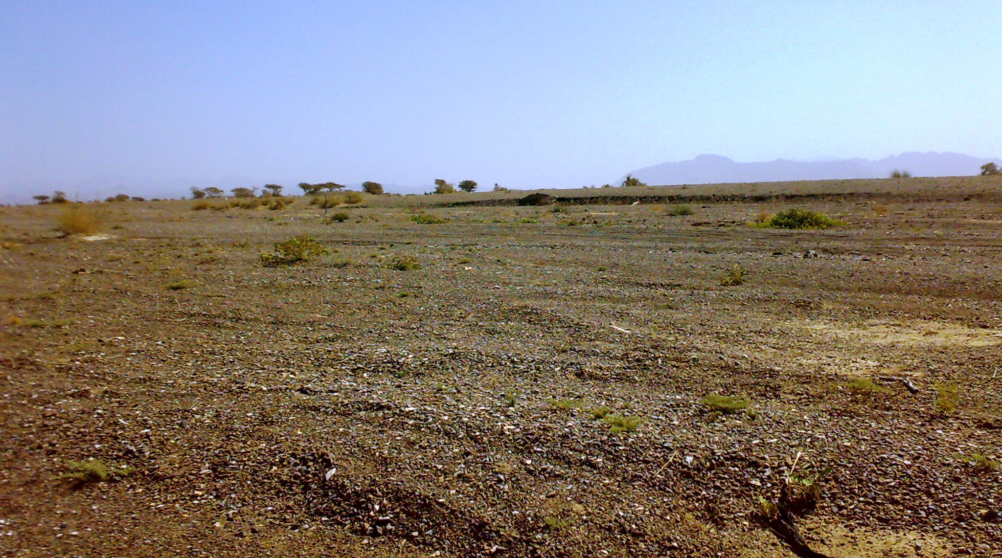 Desert landscape just west of hatta, in the mountains of Dubai, between Dubai and Hatta cities.